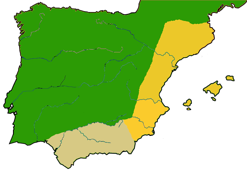 Map of Hispania 195 BC